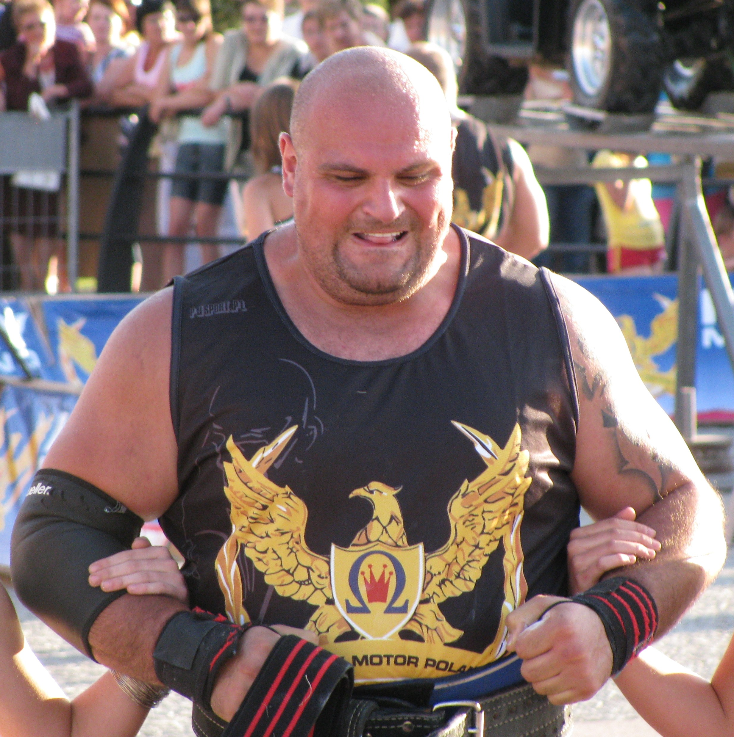 Laurence Shahlaei - a strength athlete from England